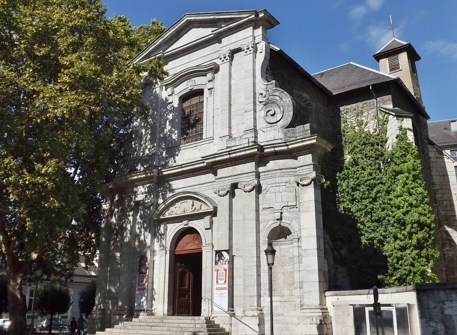 Sight of the chapelle Vaugelas chapel, in Chambéry, Savoie, France.